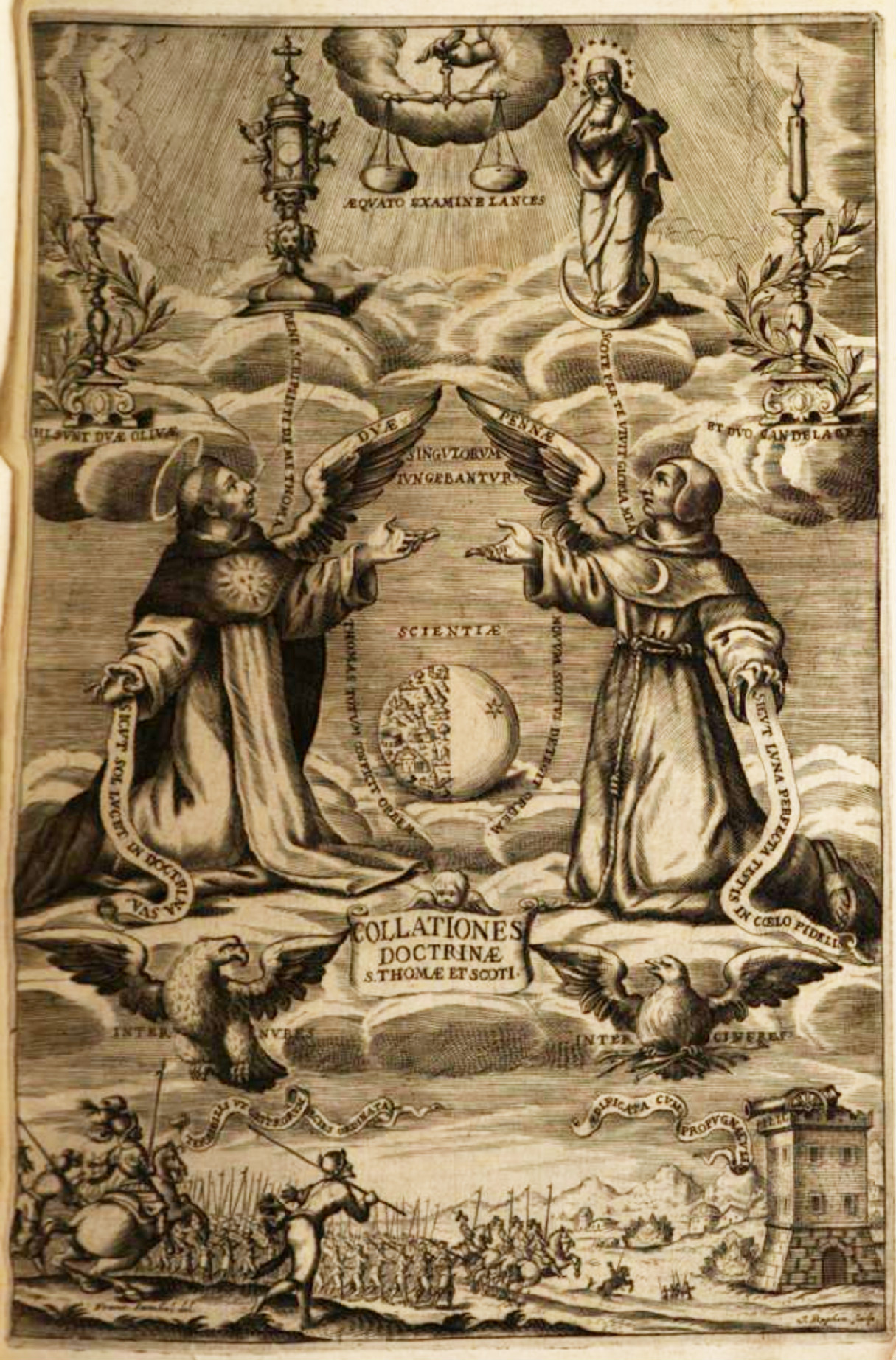 Duns Scotus and Thomas Aquinas